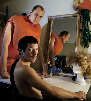 Promotional picture for the show En mur av ägg.